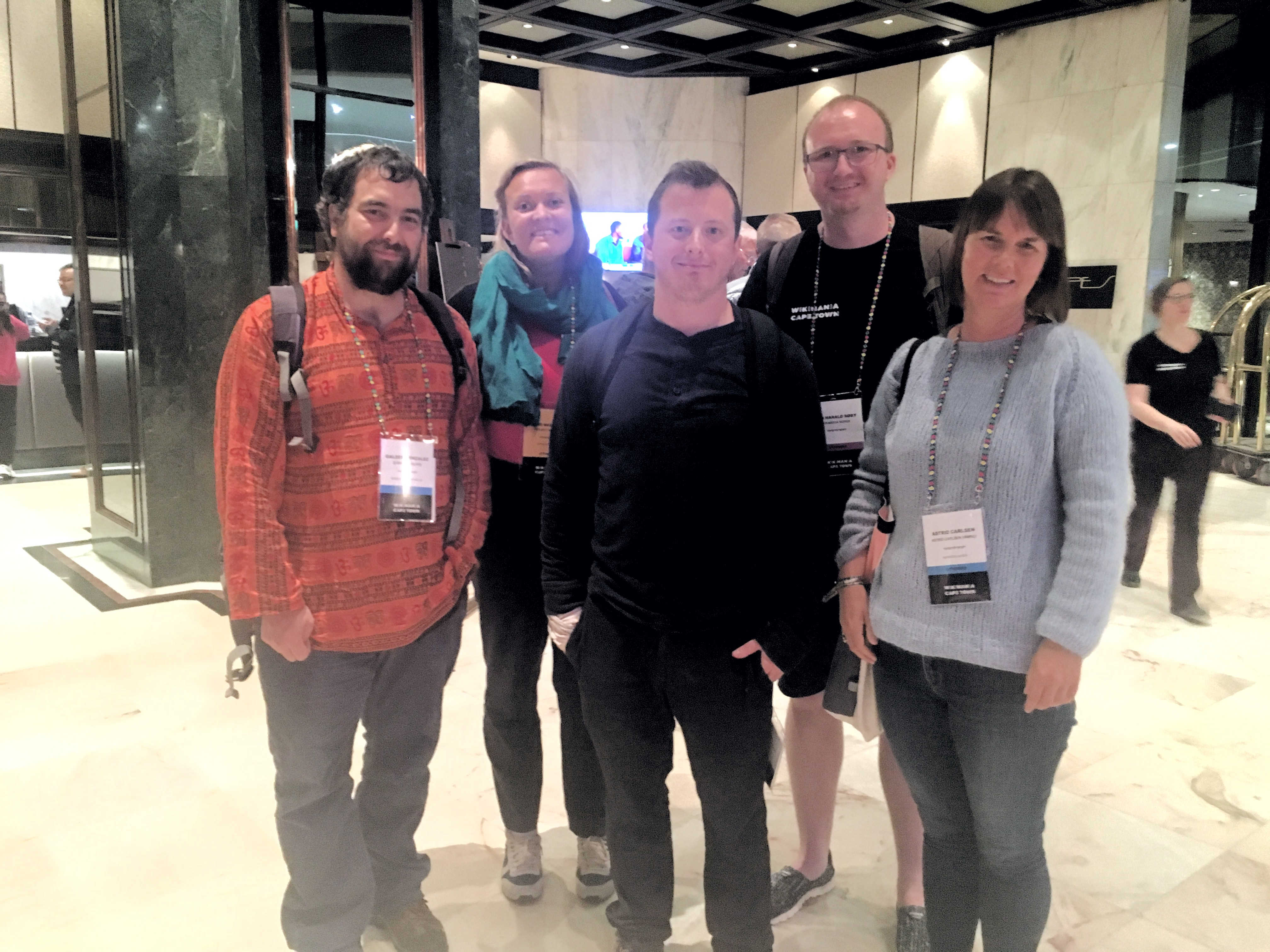 From left: Galder Gonzalez Larrañaga (Basque Wikimedians User Group), Jorid Martinsen (Wikimedia Norge), Jean-Philippe Béland (Wikimedians of North American Indigenous Languages User Group), Jon Harald Søby (Wikimedia Norge) and Astrid Carlsen (Wikimedia Norge).